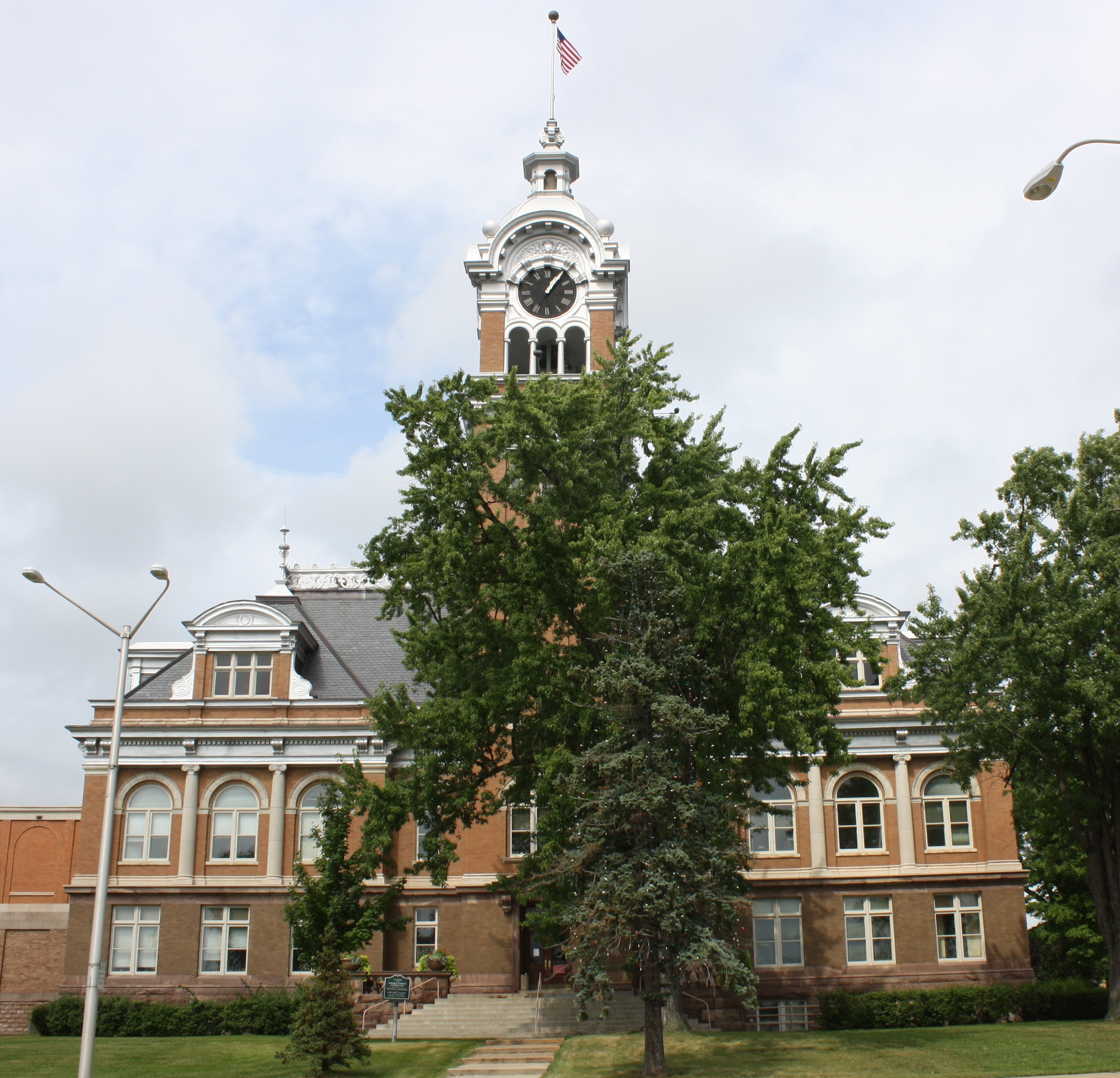 The top of the Lincoln County Courthouse in Merrill, Wisconsin. It is listed on the National Register of Historic Places.